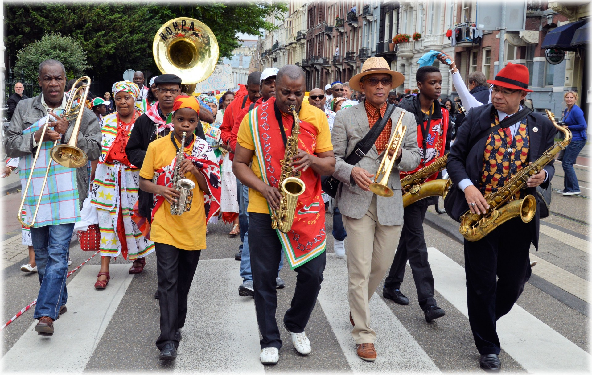 Keti Koti